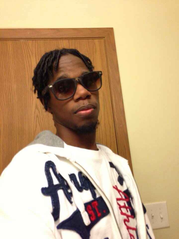 Letting a fan take a pic of him